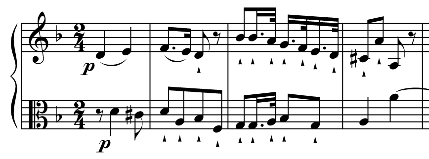 Canon theme and counterpoint from the second movement of Joseph Haydn's Symphony No. 70 in D major. Entered into Finale and cleaned up in Adobe Photoshop.